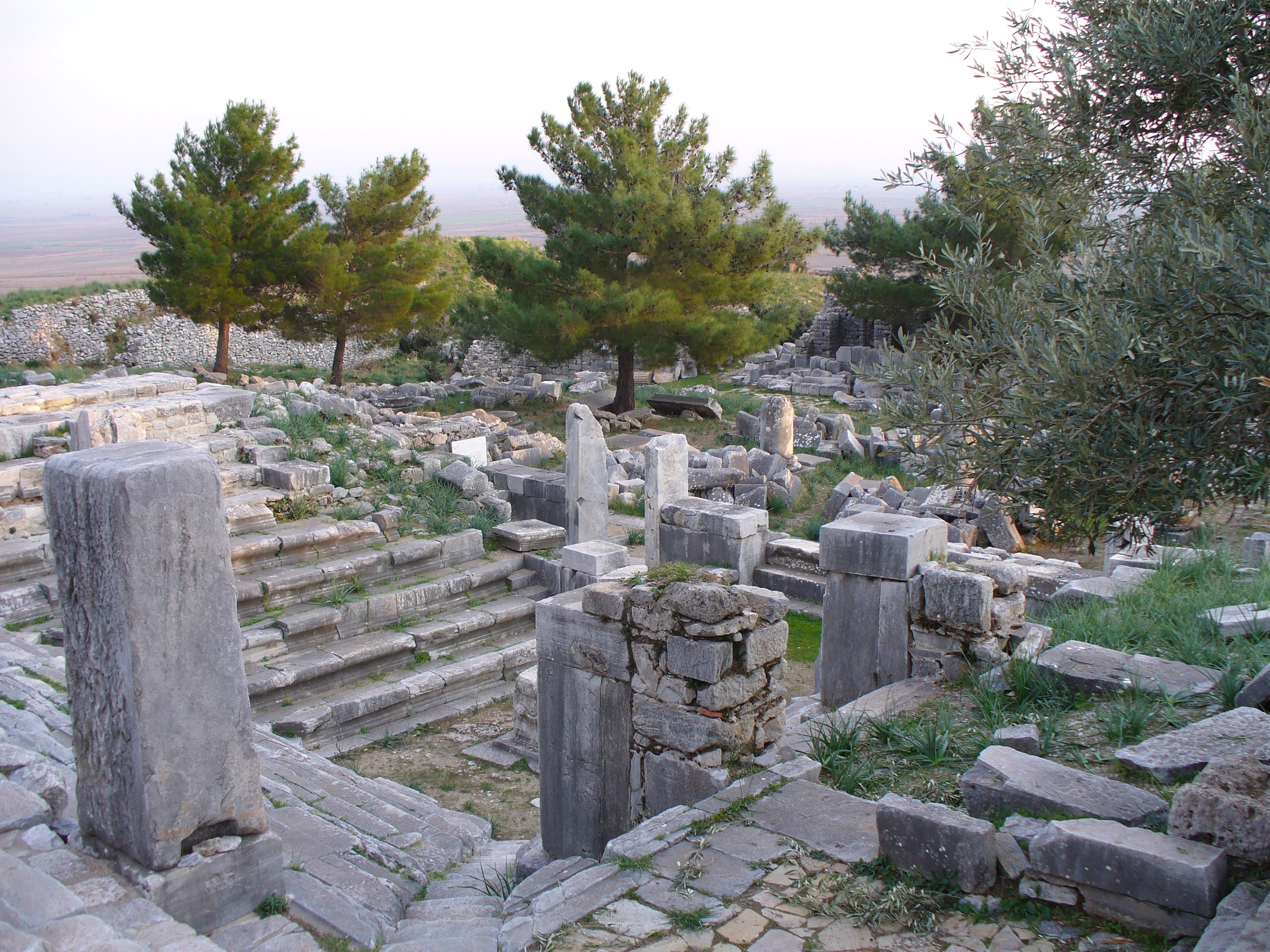 The assembly hall of Priene.